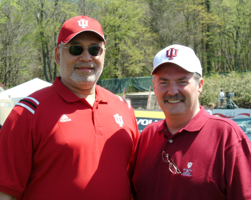 Mike Sodrel and IU President Adam Herbert at the 2005 Little 500